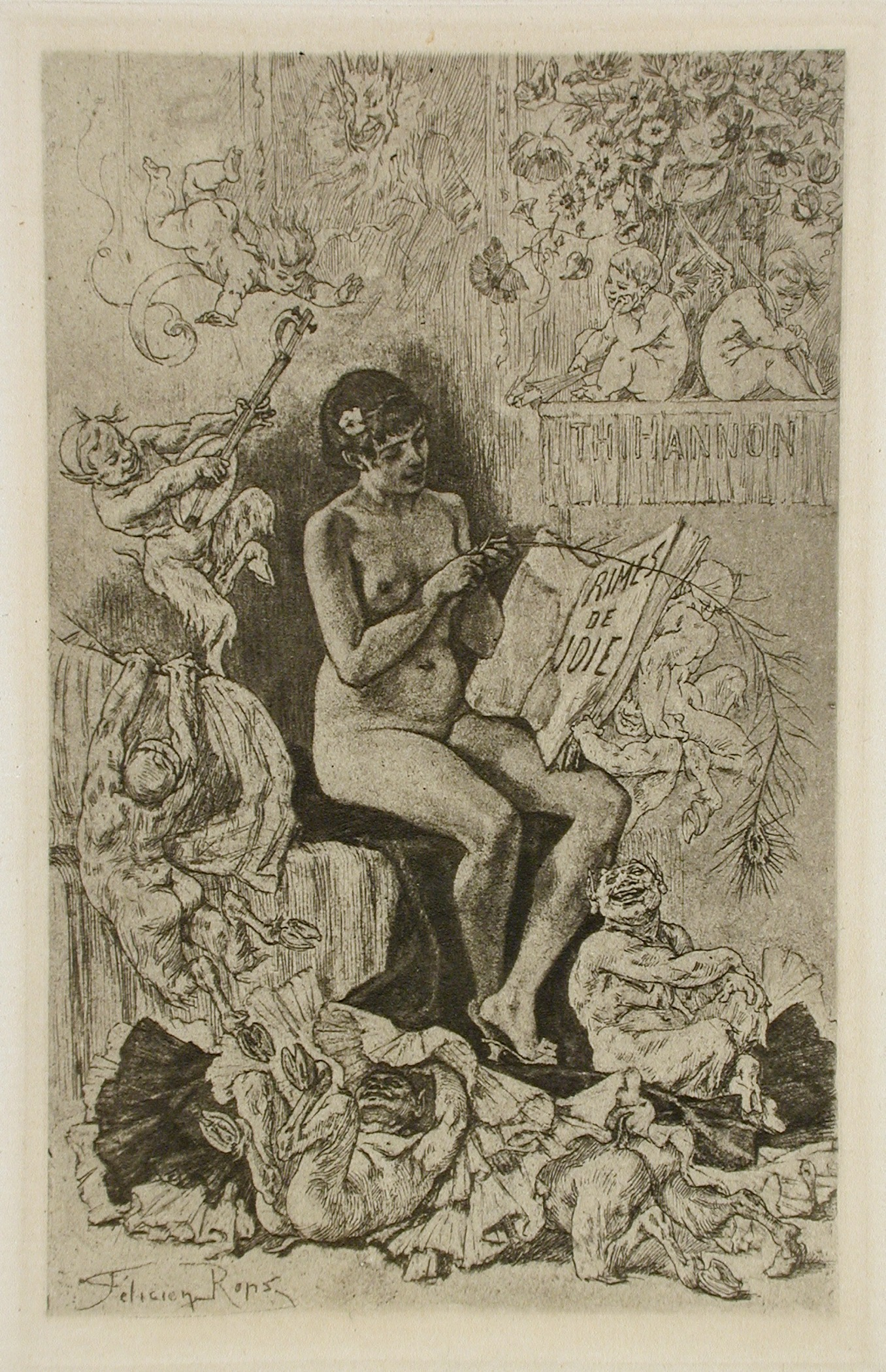 Belgium, 1881 Series: Rimes de joie, frontispiece Prints; etchings Etching Gift of Michael G. Wilson (M.84.243.111) Prints and Drawings